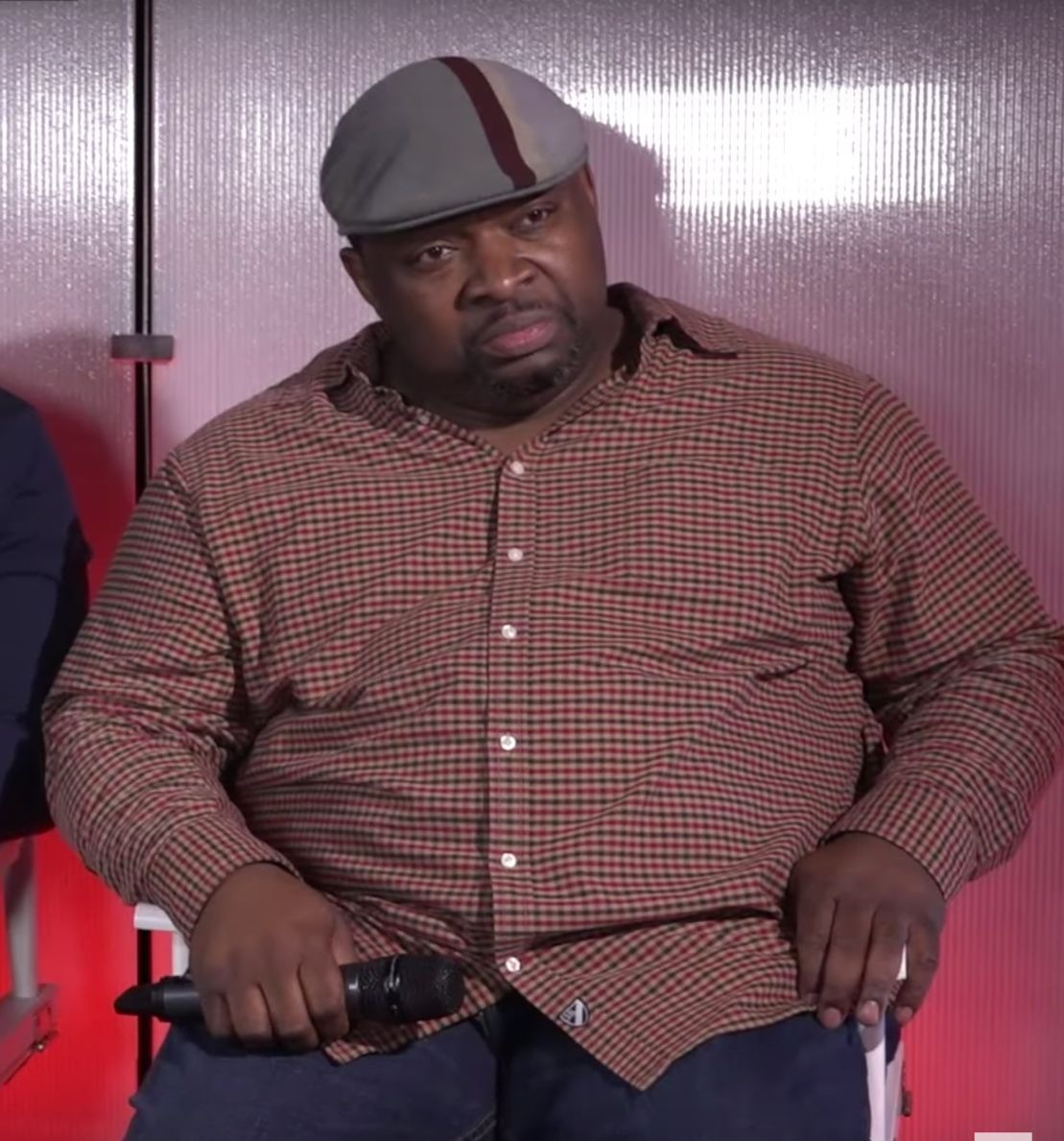 Man Talk: The Quiet Storm Ask LaVan Davis, Tyler Lepley & Eltony Williams Relationship Questions